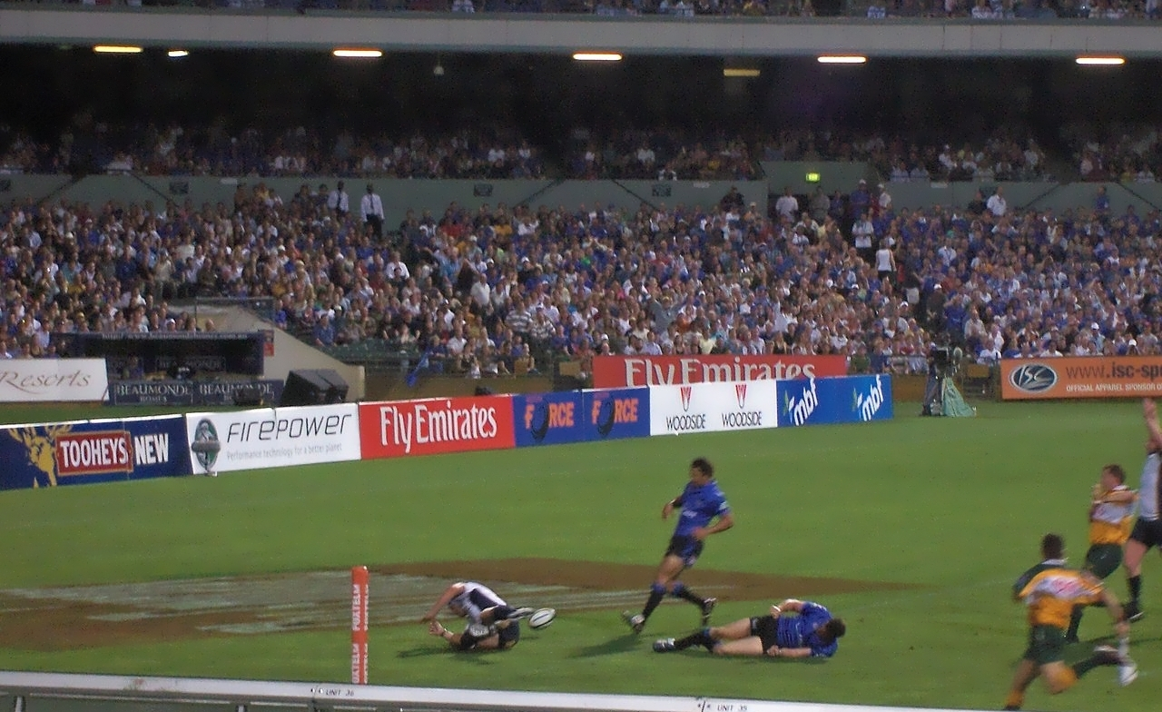 (Mark Chisholm scores a try at :en:Subiaco Oval for the :en:ACT Brumbies in a round one win over the :en:Western Force )